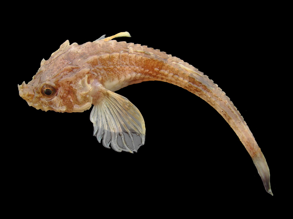 Hooknose or Pogge from the Belgian coastal waters.